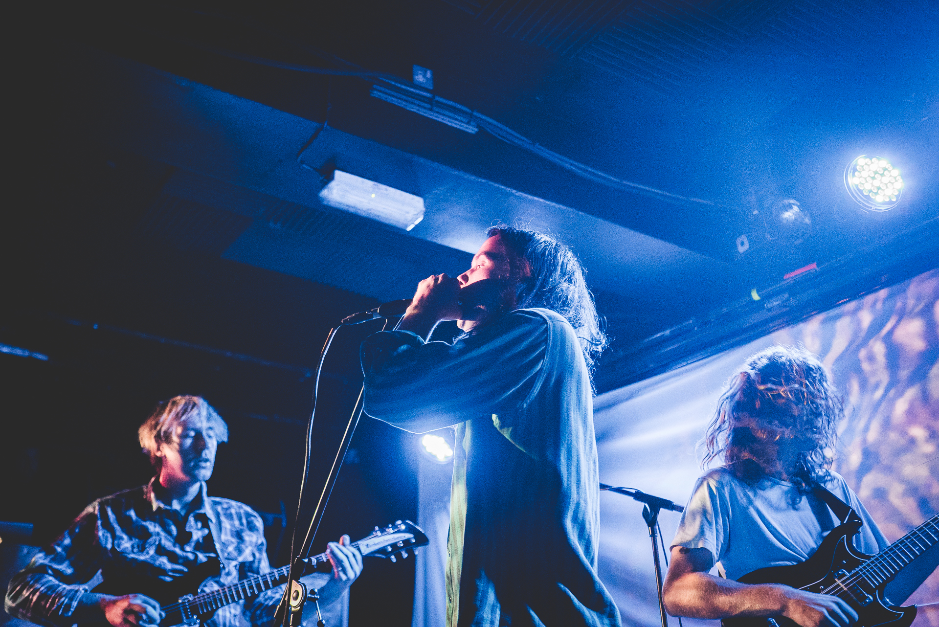 King Gizzard & the Lizard Wizard